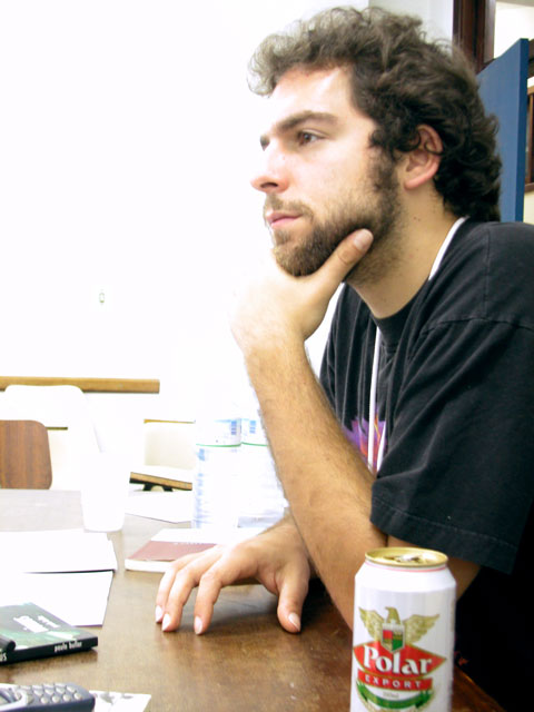 Self-portrait of Daniel Galera, Brazilian writer and translator.